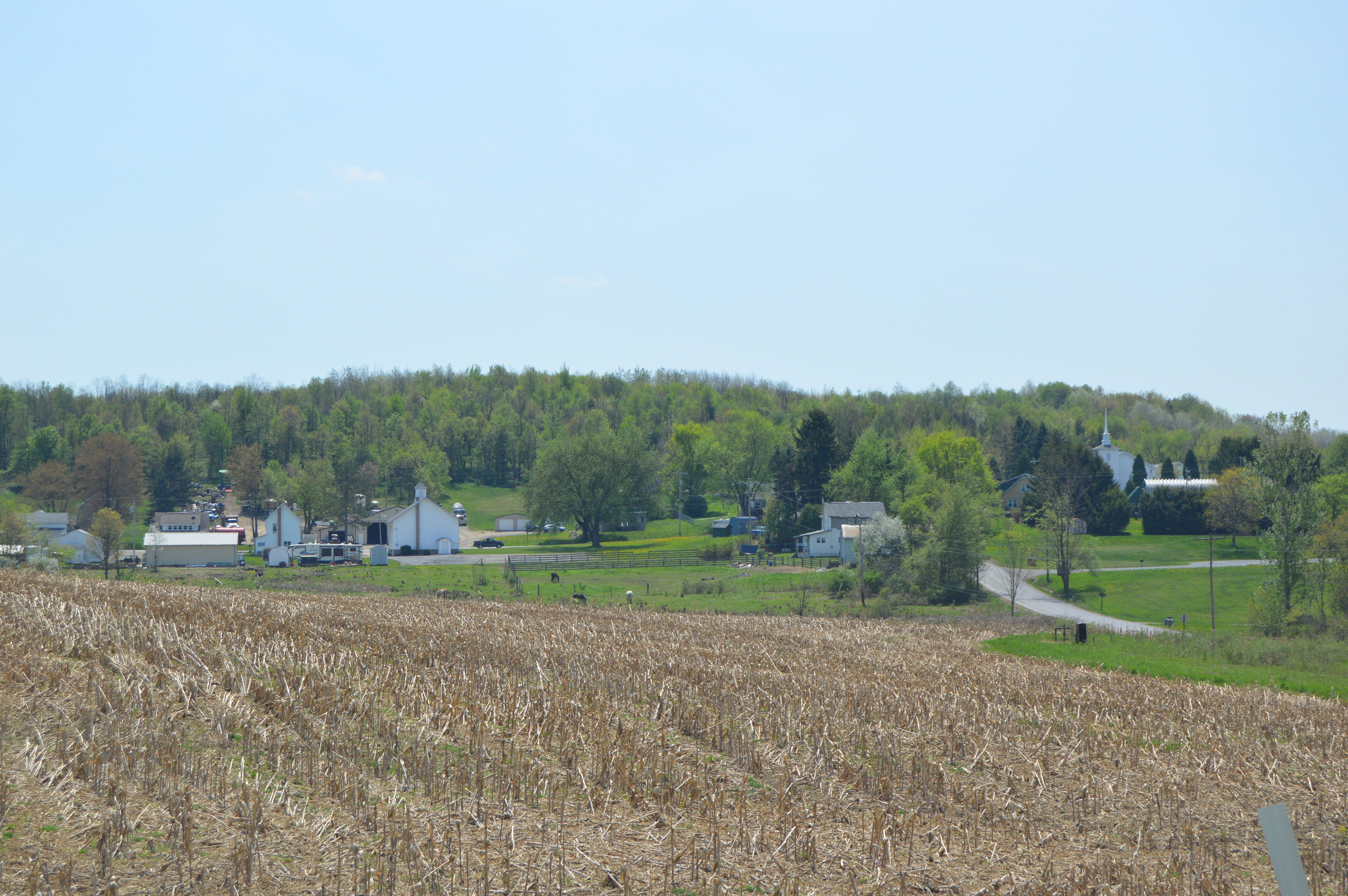 Fields and woods in western Banks Township, Indiana County, Pennsylvania, United States. Photo looks south from Glen Campbell Road toward Smithport.